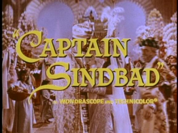 Main Title frame from public domain trailer for 1963 film Captain Sindbad.